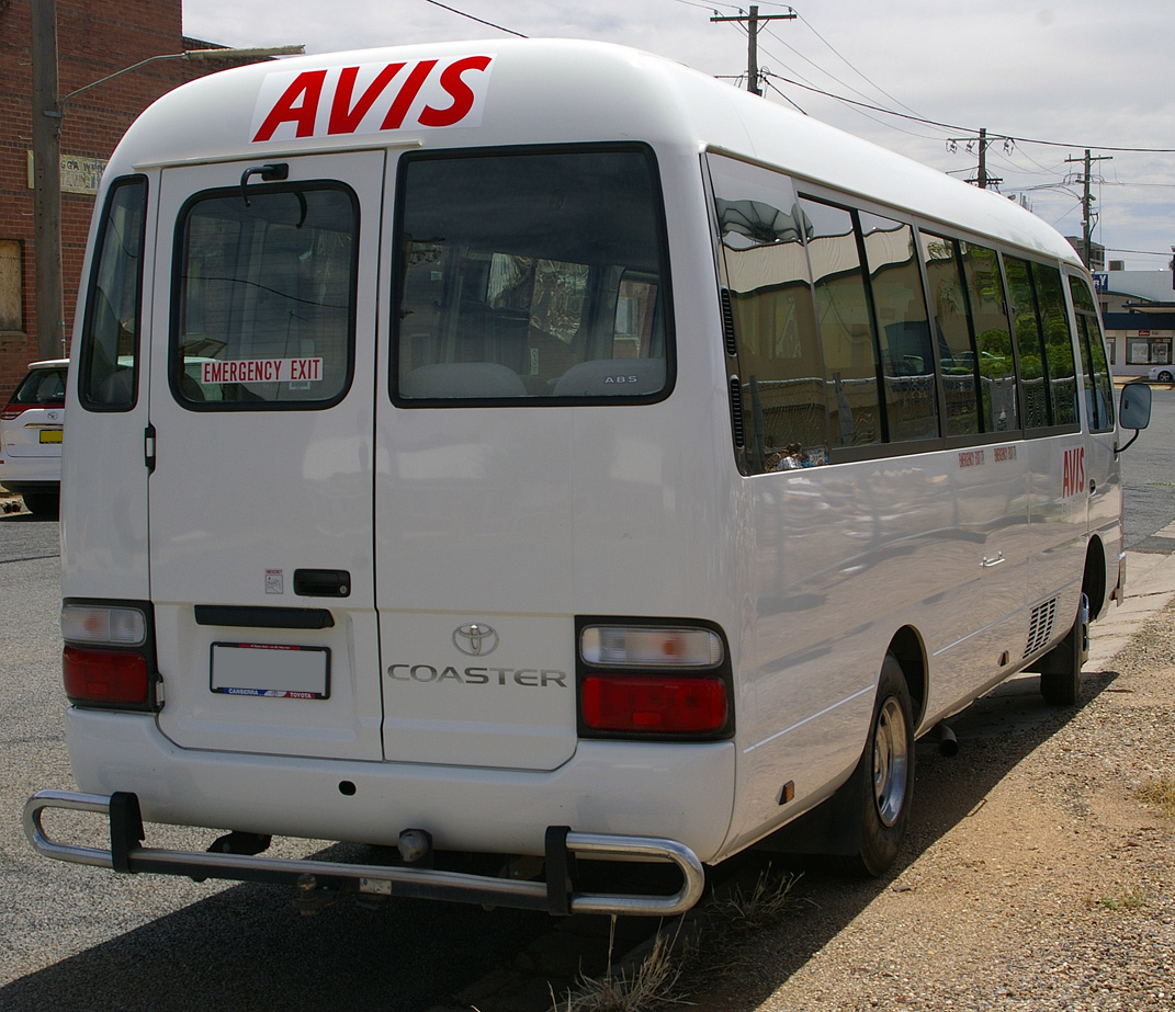 Toyota Coaster used by AVIS.